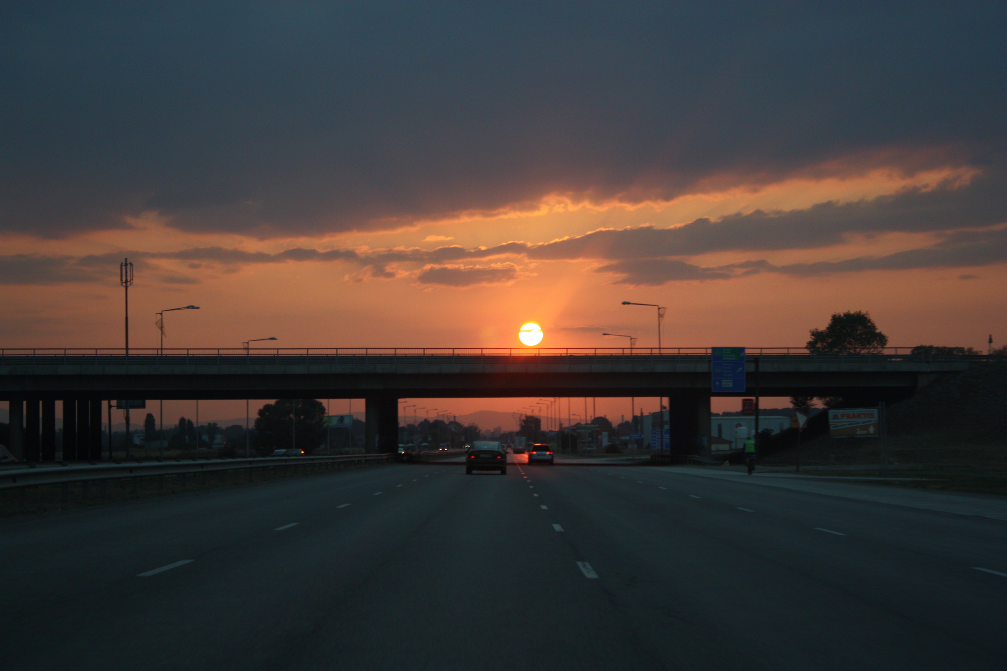 Sofia Circular road overpass at E79 and Underbalkan roads entrance in Sofia